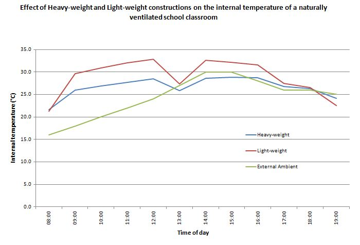 Graph showing the effect of Heavy-weight and Light-weight constructions on the internal temperature of a naturally ventilated school classroom